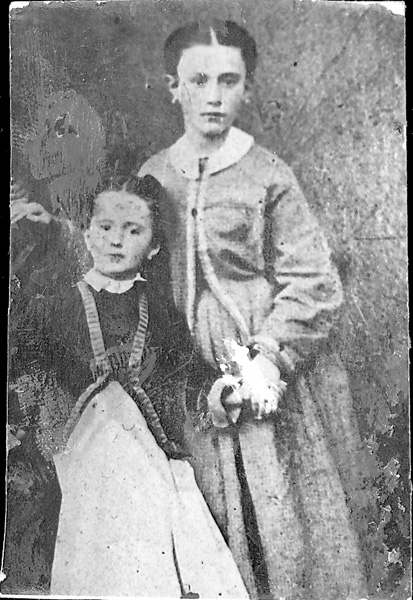 Photograph of the Africa explorer Isabel de Urquiola (1854-1911) and her younger sister (possibly Manuela).